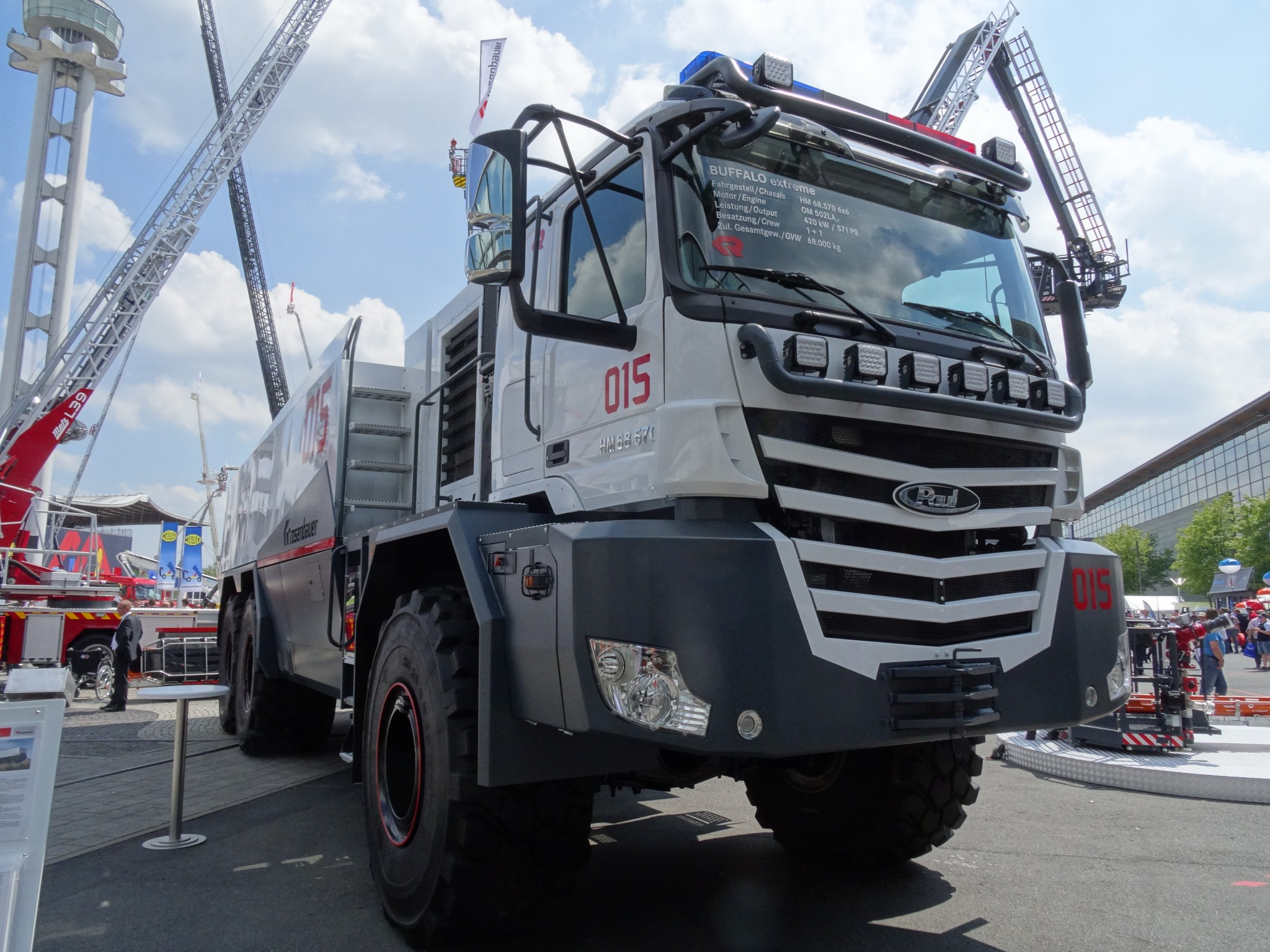 Rosenbauer Buffalo extreme Interschutz 2015 Hannover